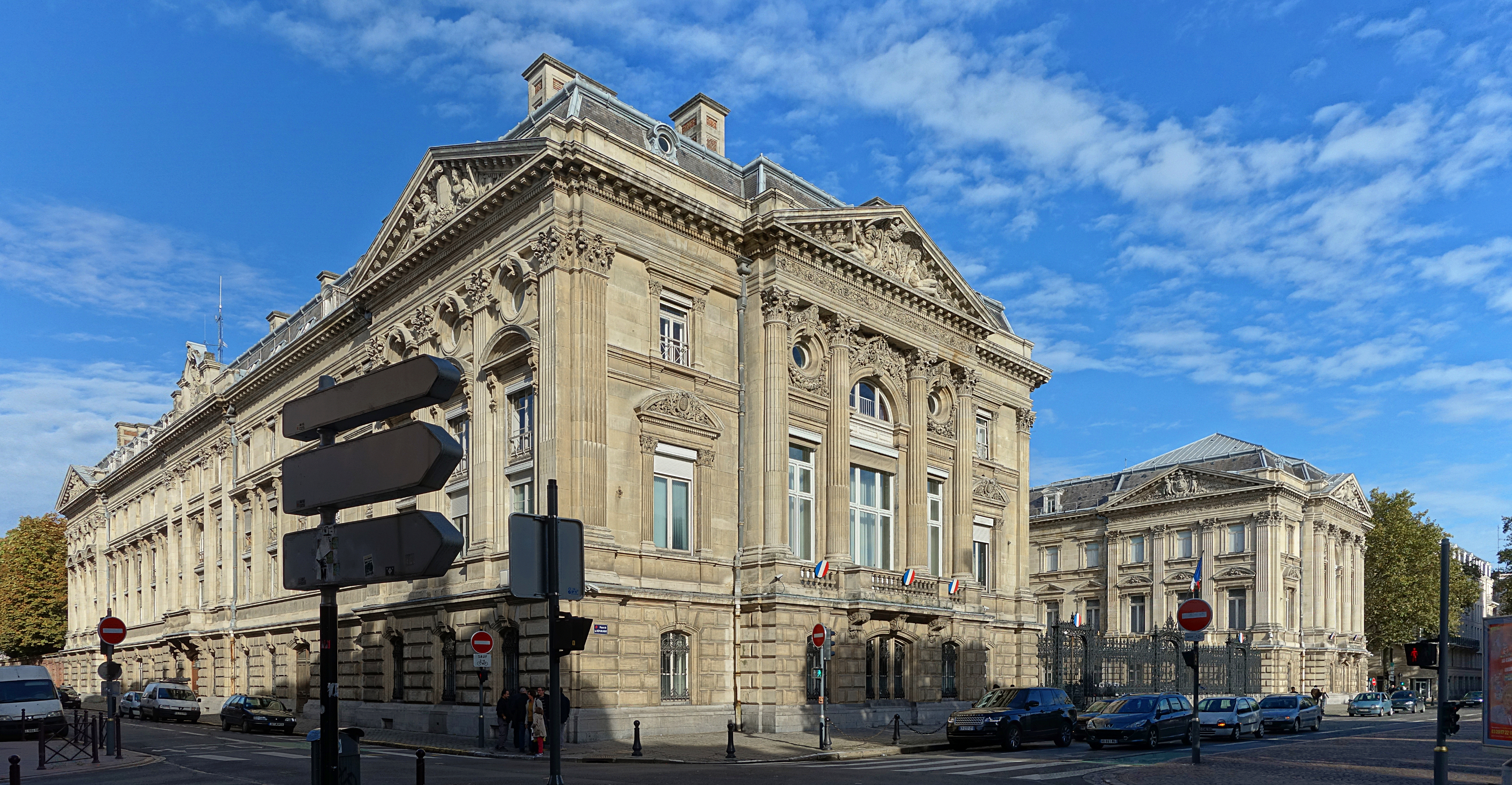 Prefecture of Lille, France.